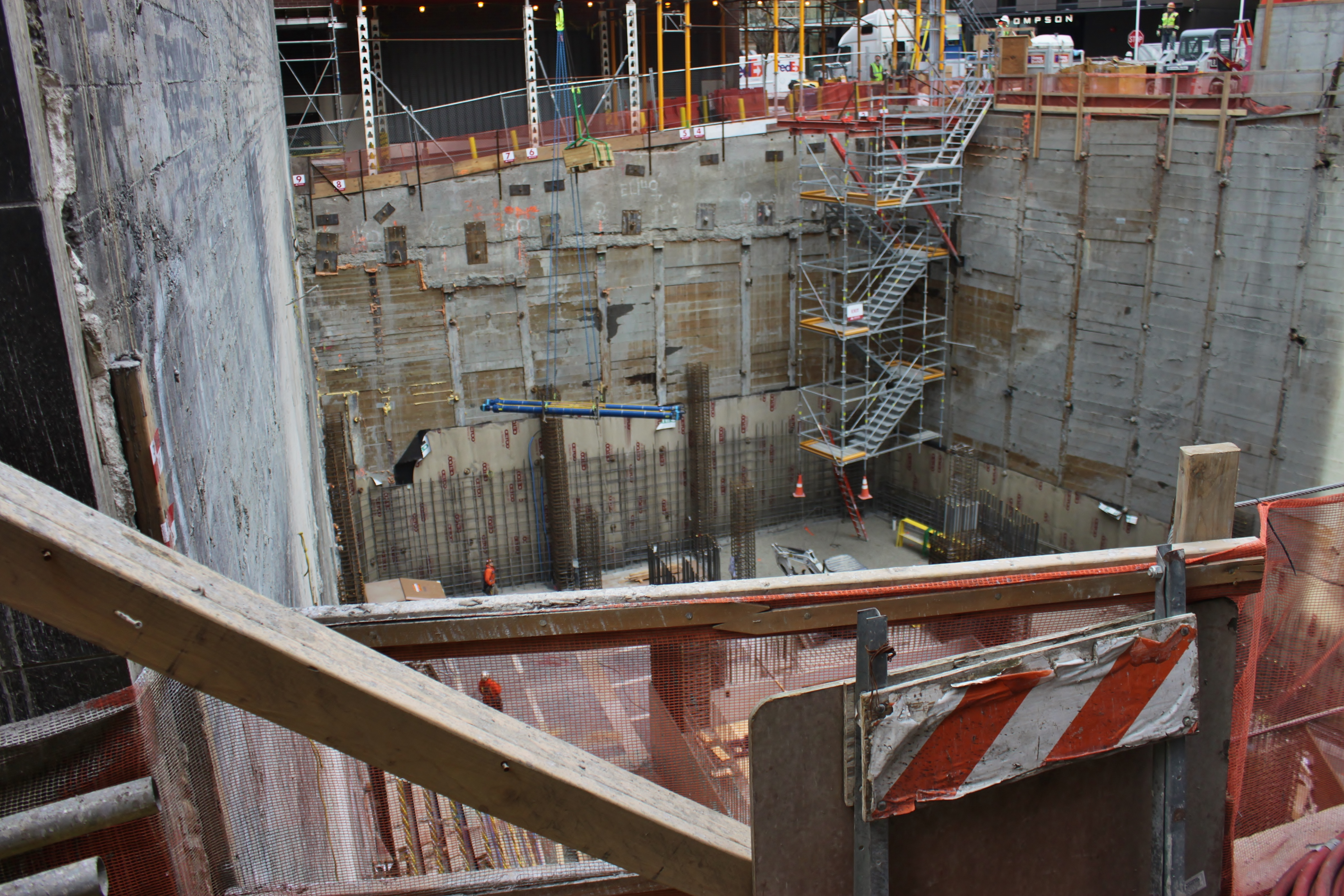 The excavated parking garage and core of The Emerald, a future residential high-rise in Downtown Seattle, Washington, United States.